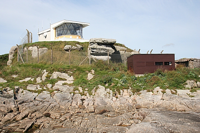 Fife Ness Lighthouse. Located at the easternmost point of Fife, marking the north side of the entrance to the Firth of Forth. An example of a low-rise lighthouse. The dark hut below and to the right is a birdwatching hide. Large numbers of birds pass close by just offshore on migration every spring and autumn.